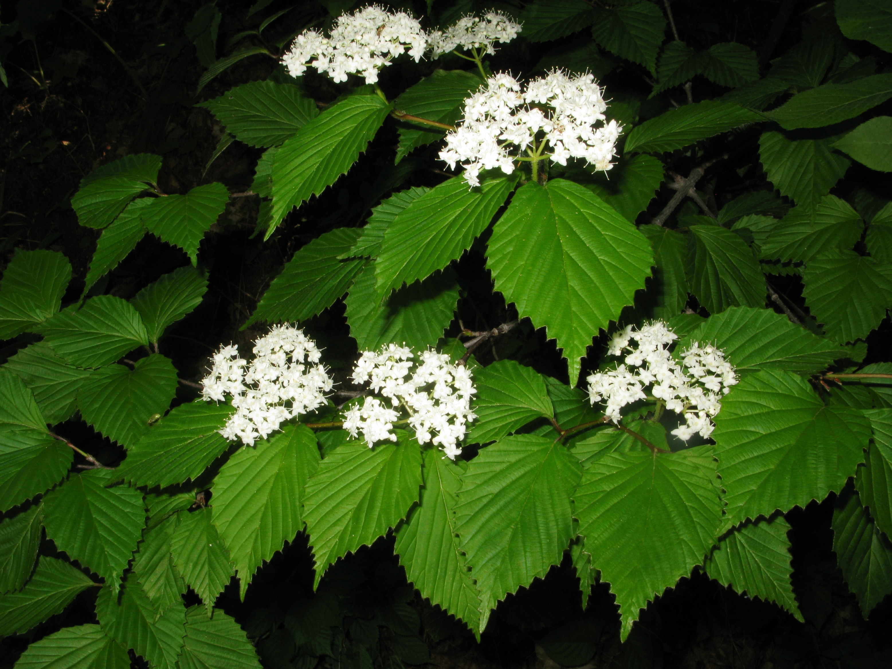 Viburnum wrightii, Aizu area, Fukushima pref., Japan